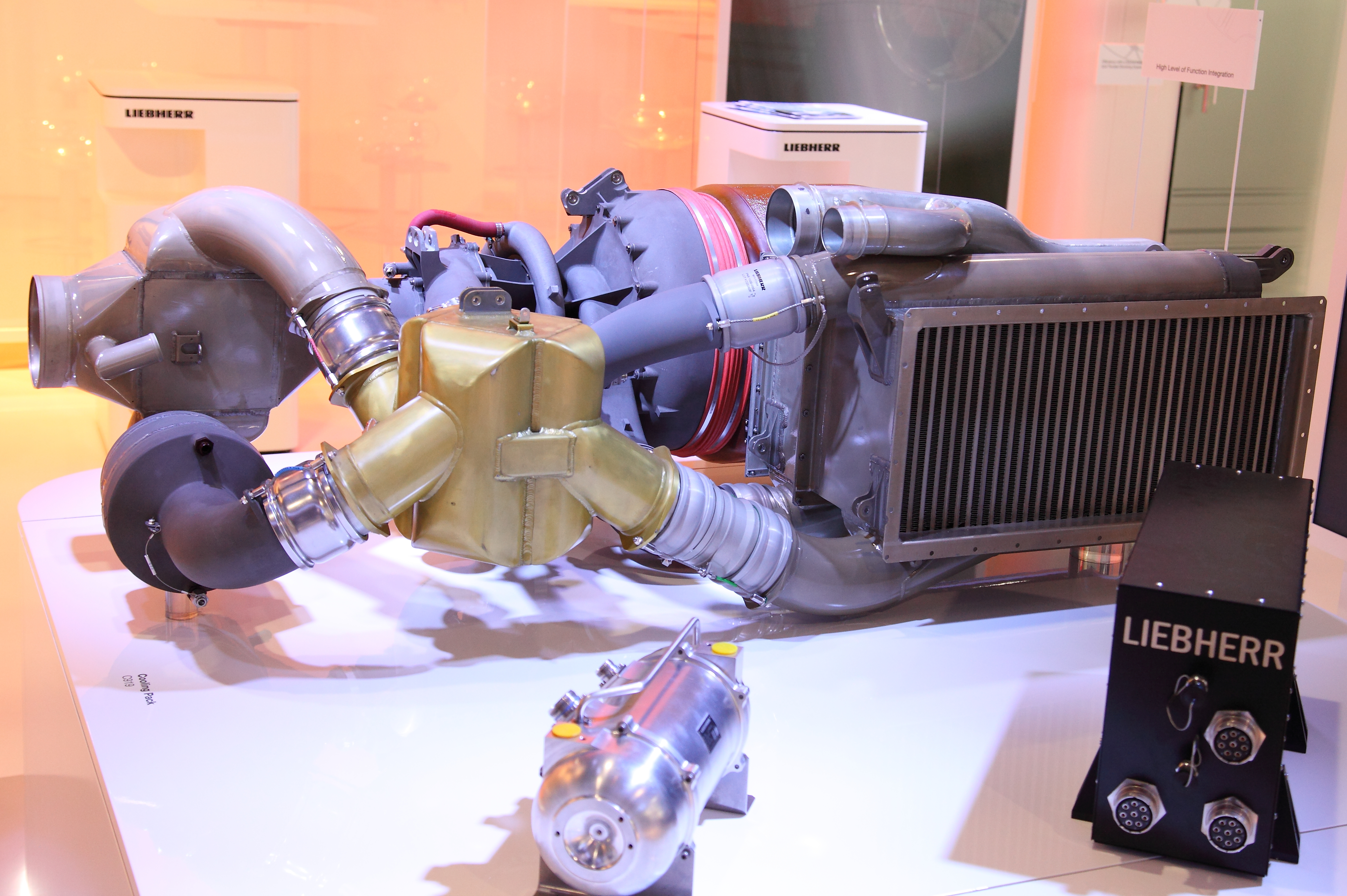 ILA Berlin Air Show 2012; Cooling Pack: C919; Liebherr; Air Management Systems